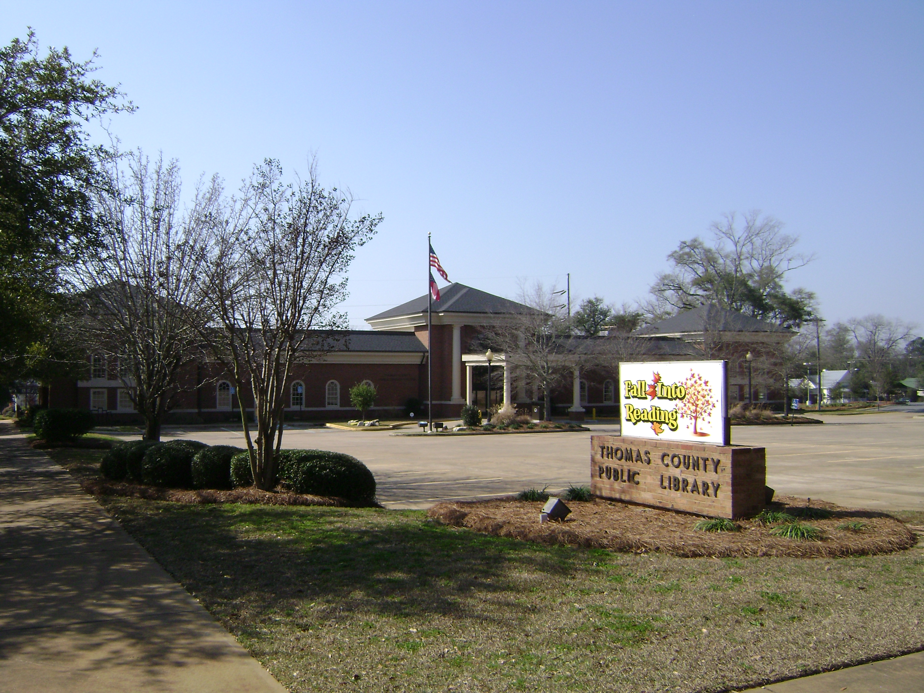 Thomas County Public Library sign, Thomasville, Thomas County, Georgia